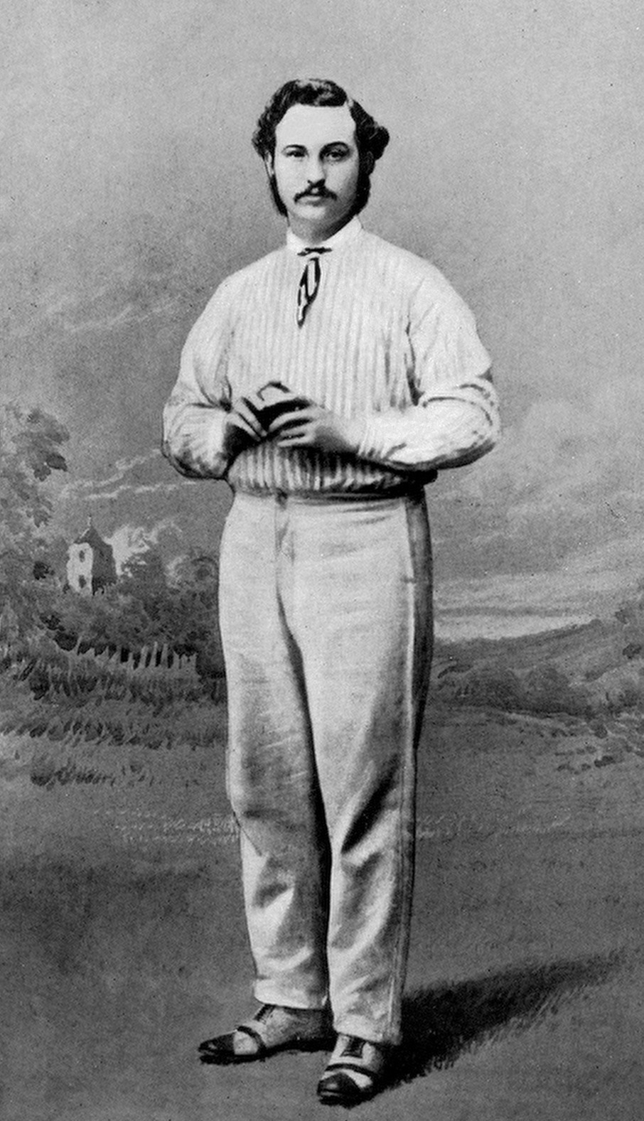 George Freeman from The History of Yourkshire County Cricket 1833-1903 by RS Holmes